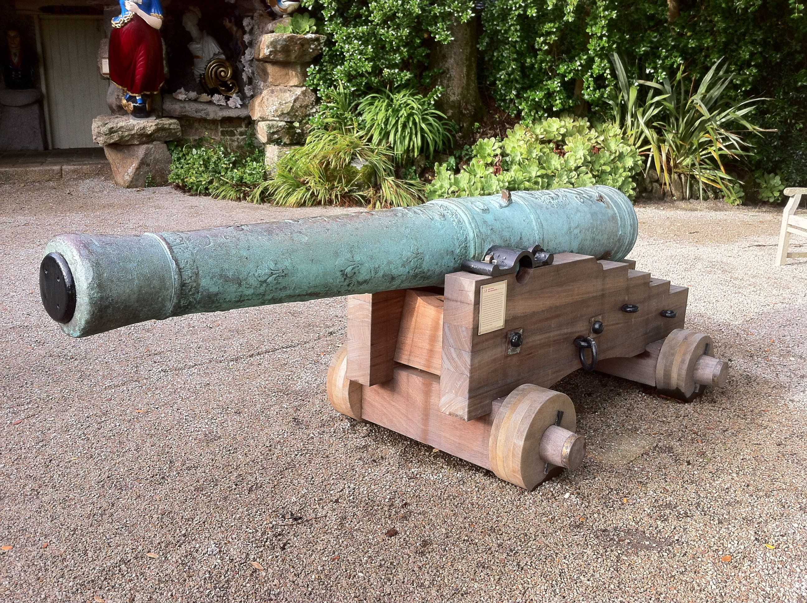 On 22 October 1707, four Royal Naval warships in a fleet of 20 under Admiral Sir Cloudesley Shovell went down amid the Western Rocks, Isles of Scilly, with the loss of about 2,000 men. Returning from the Mediterranean in stormy weather, the fleet mistook its position as much further south. Shovell's flagship Association, the Eagle, Firebrand and Romney were wrecked with only 26 survivors. This French 18-pounder bronze gun, probably a trophy from the siege of Toulon (1707) was recovered from the Association site in 1970. The main decoration shows the arms of France and Navarre surrounded by the collars of the orders of St Michel and the St Esprit, surmounted by a crown. The gun carriage is modern. In the Valhalla Museum in Tresco Abbey Gardens, Isles of Scilly.